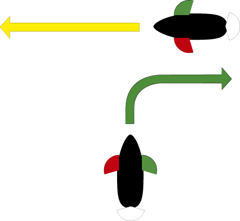 COLREGS - Rule 15 RIPA - Regla 15